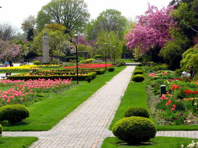 Jackson Park in full Spring bloom, April 2010